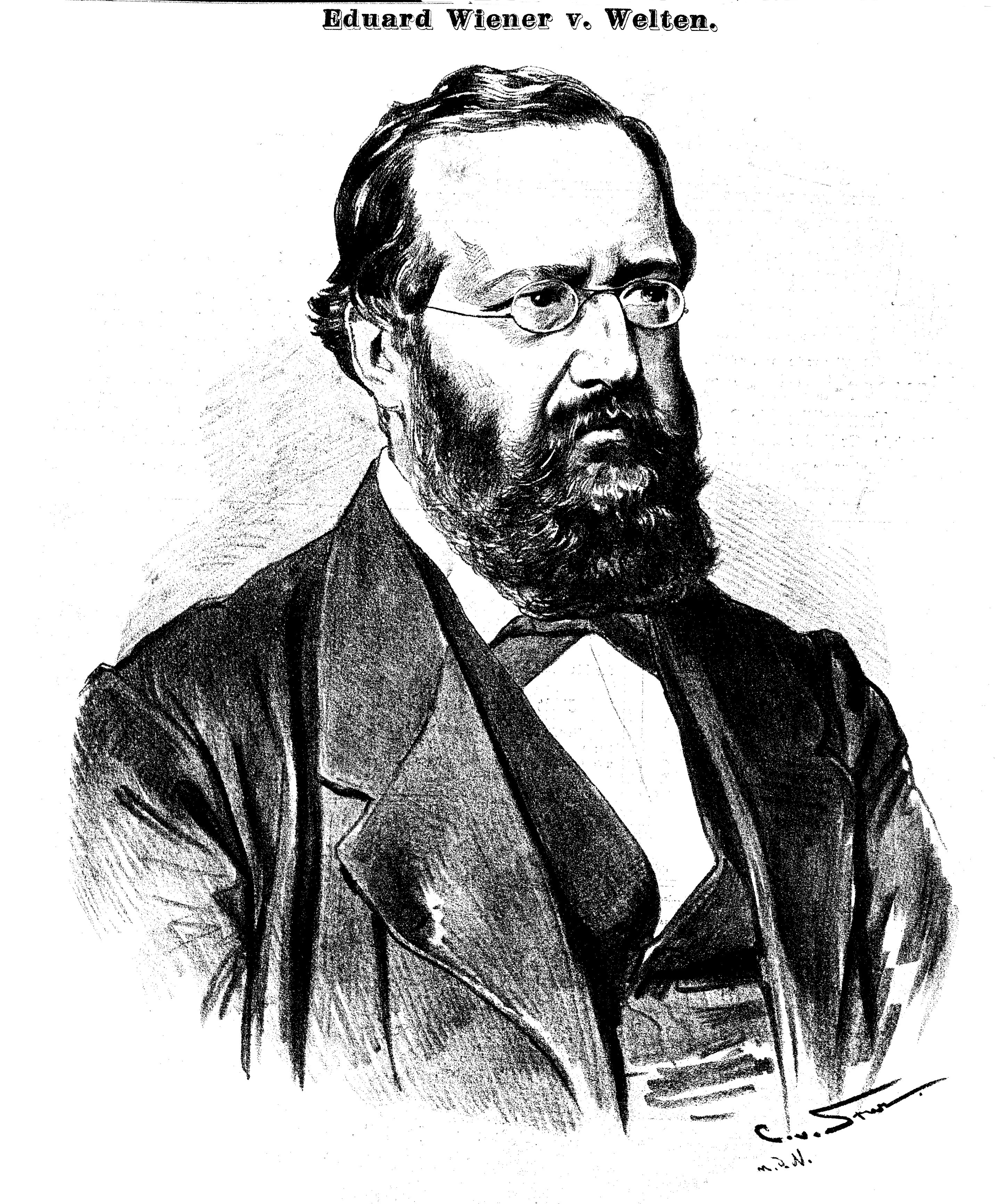 Portrait of Eduard Wiener von Welten (1822-1886), Austrian wholesaler and banker